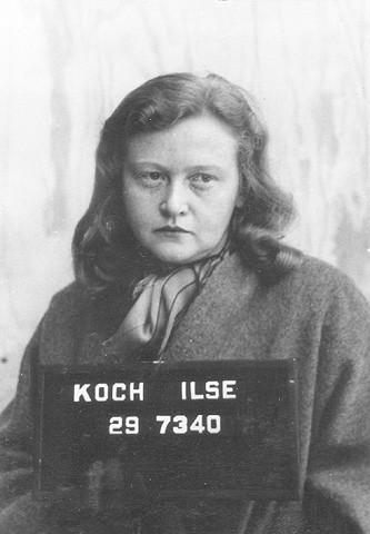 Ilse Koch, wife of Karl Koch who was commandant of the concentration camp at Buchenwald